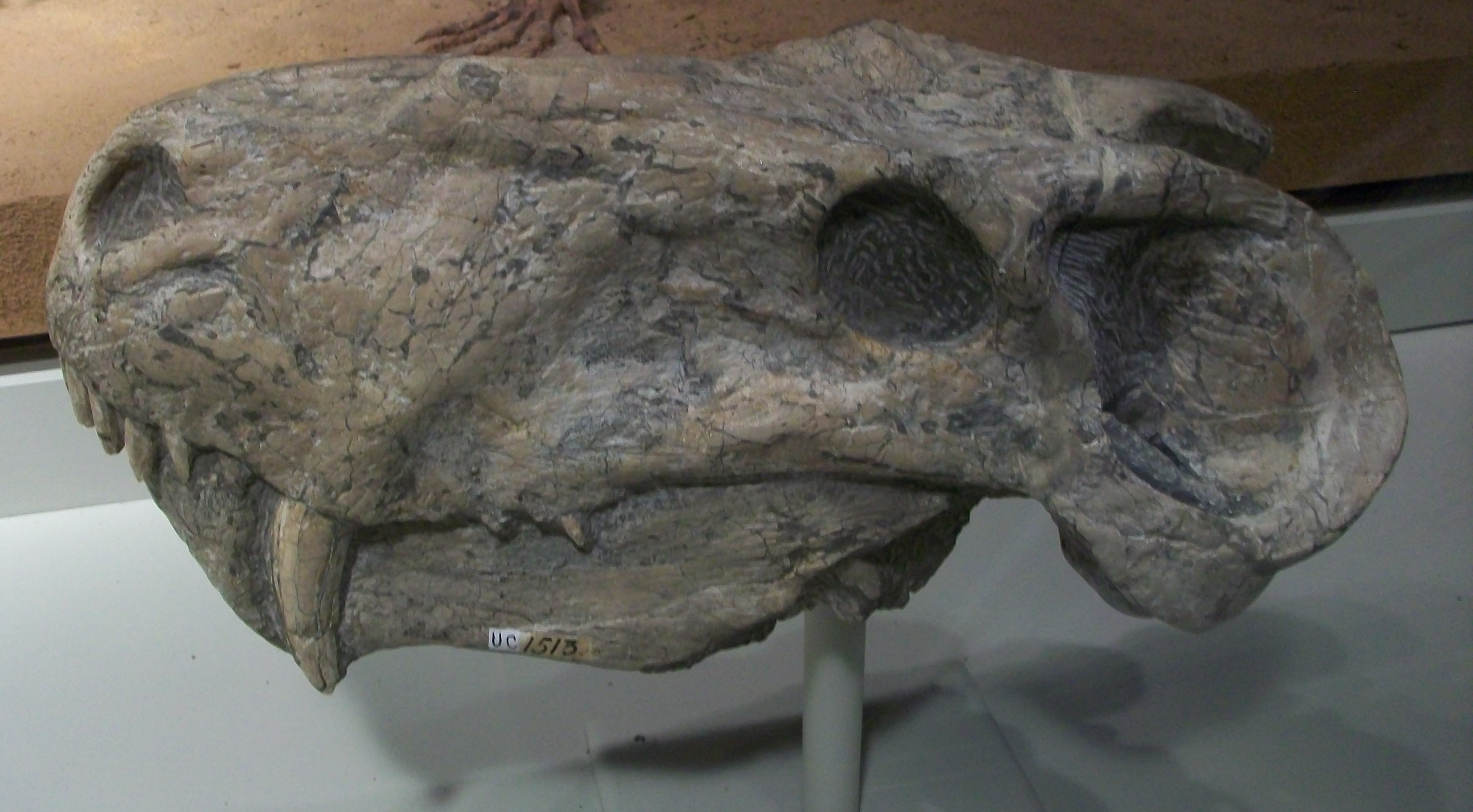 Skull of Lycaenops cf. angusticeps in the Field Museum of Natural History.